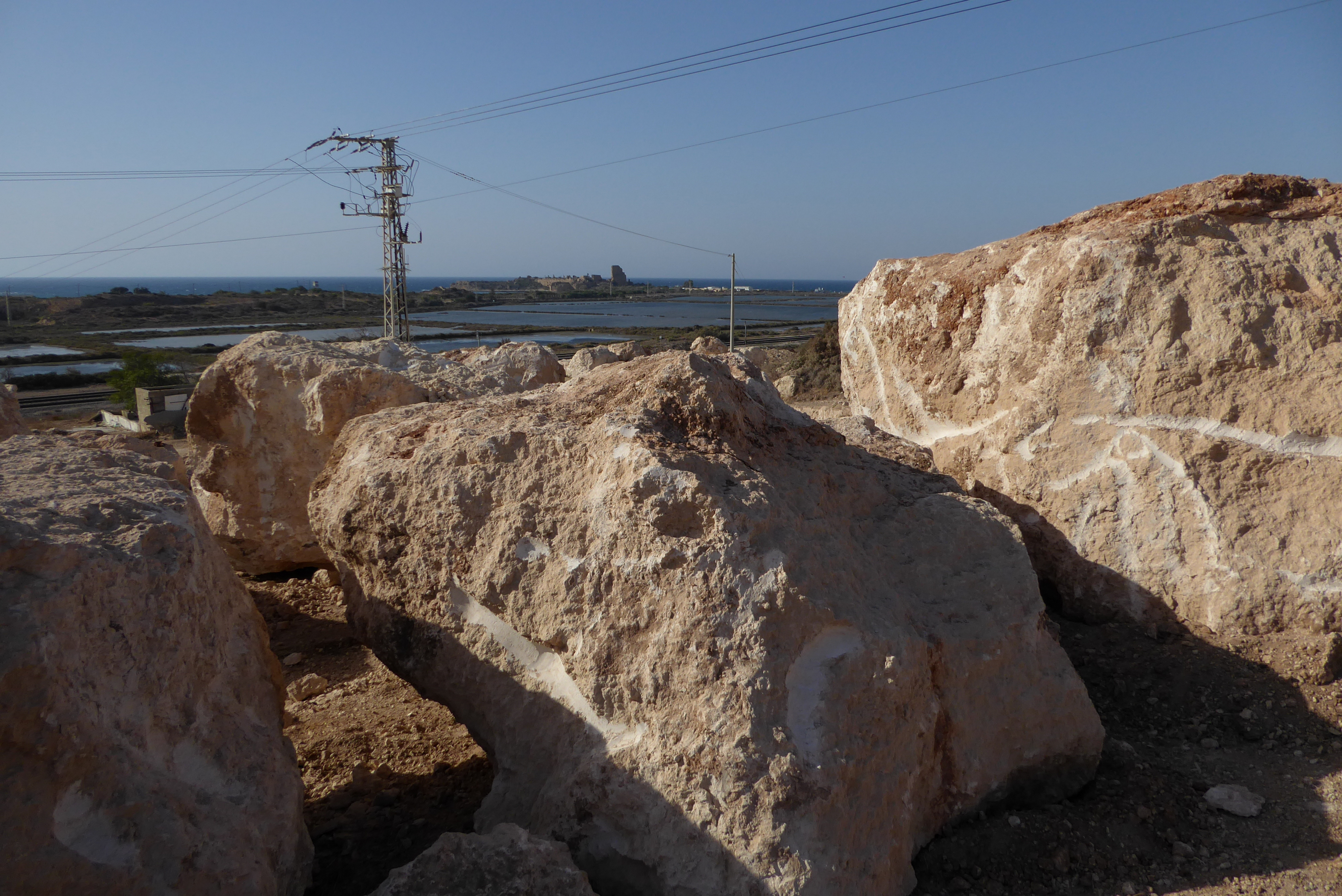 Chateau Pelerin